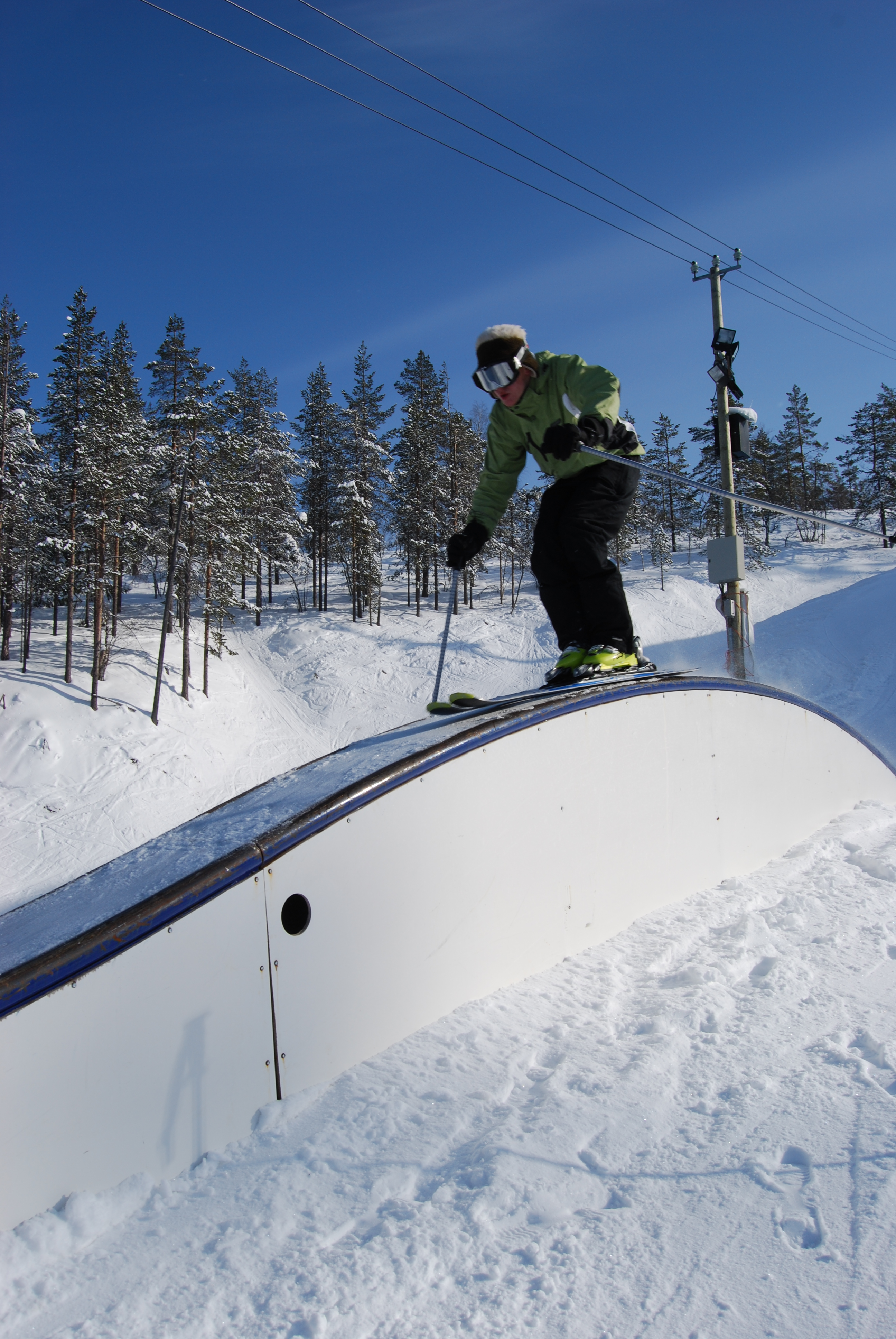 Skier on funbox in terrain park in Levi ski resort in Kittilä, Finland.